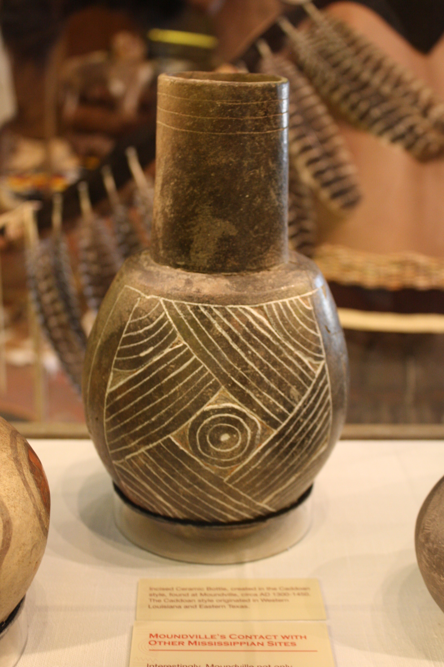 Pottery excavated at the Moundville Archaeological Park in Moundville, Hale County, Alabama, United States. Housed onsite in the Jones Archaeological Museum.